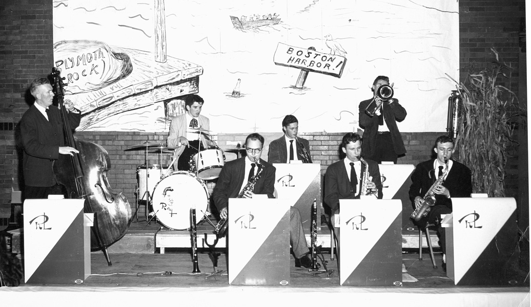 Ray Lawrence and his Orchestra in the late 1940's or early 1950's